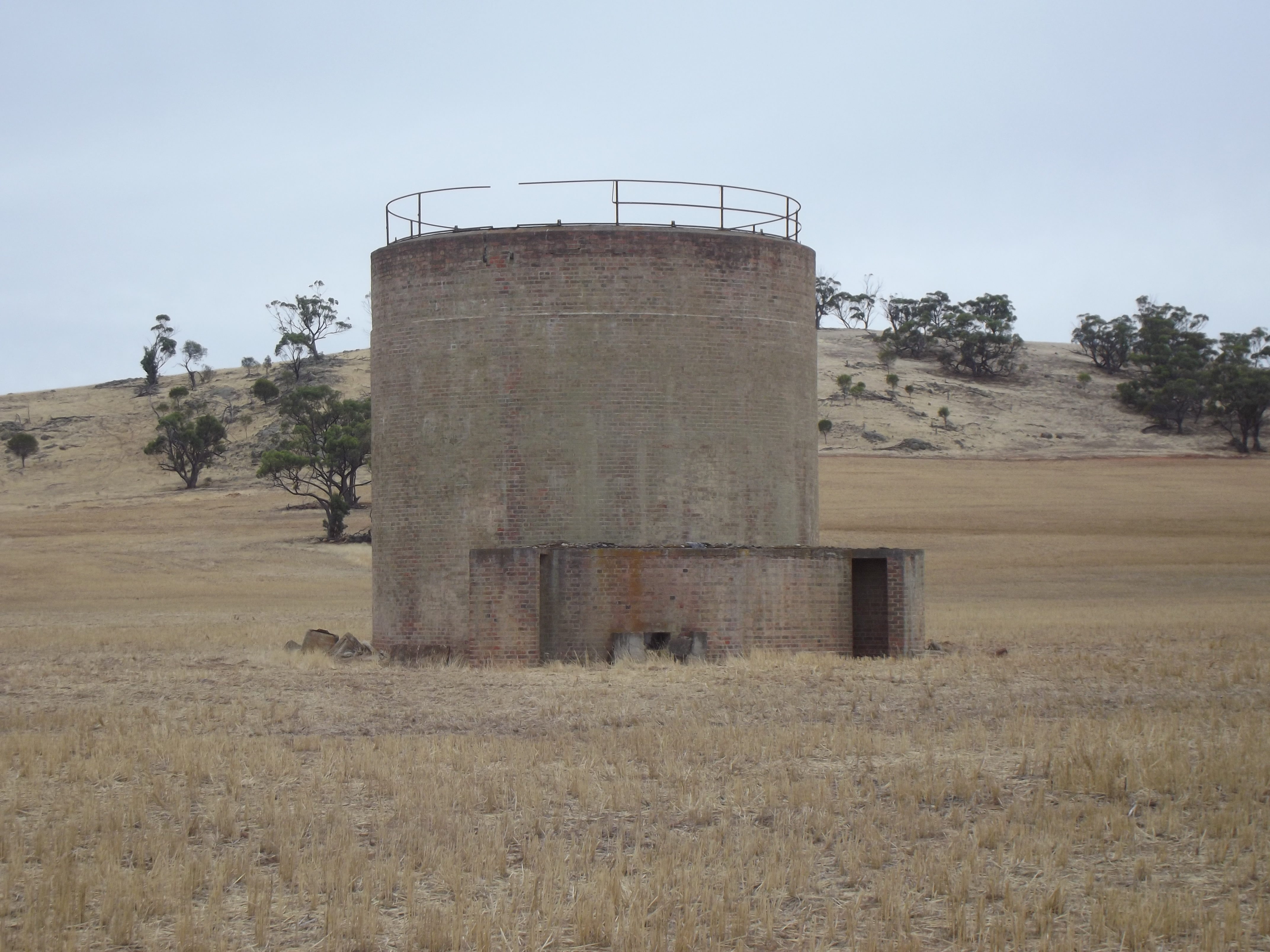 Photograph of No.1 Fuel Tank of the WWII RAAF No.10 Inland Aircraft Fuel Depot, Northam, Western Australia.